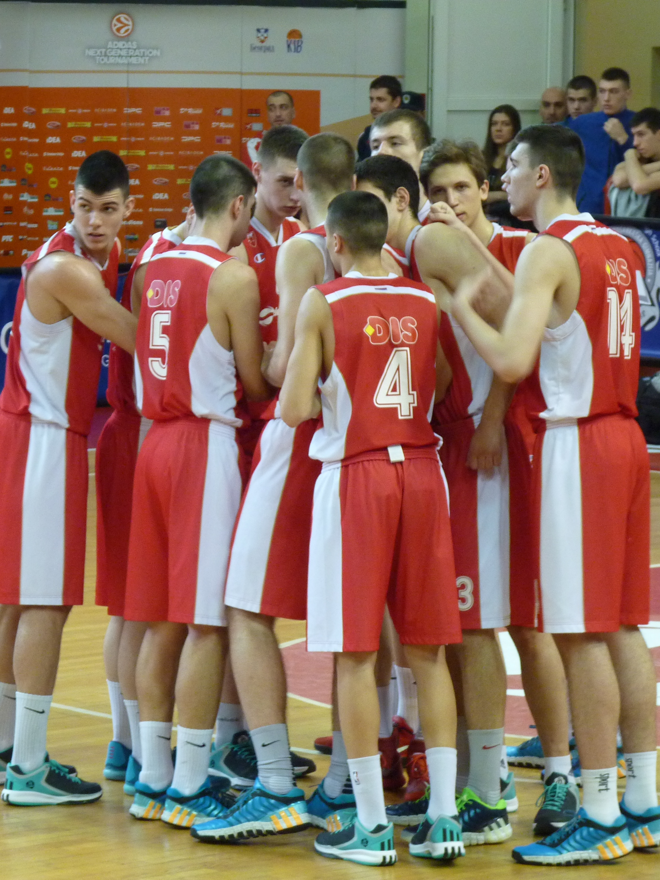 KK Crvena zvezda, young team on Euroleague tournament